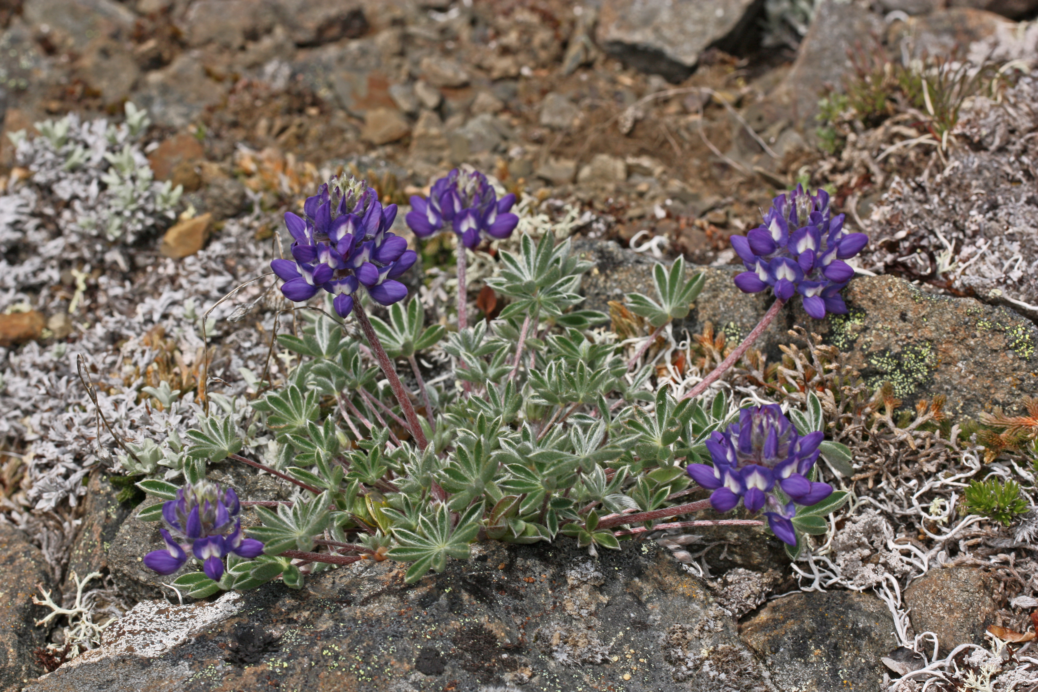 Prairie lupine Viewpoint location: Blue Mountain (6000+ feet, 1829+ m), north ridge, Olympic National Park Viewpoint elevation: 1779 meter (5837 ft) Location source: Garmin GPSmap 60CSx Location Datum: WGS84